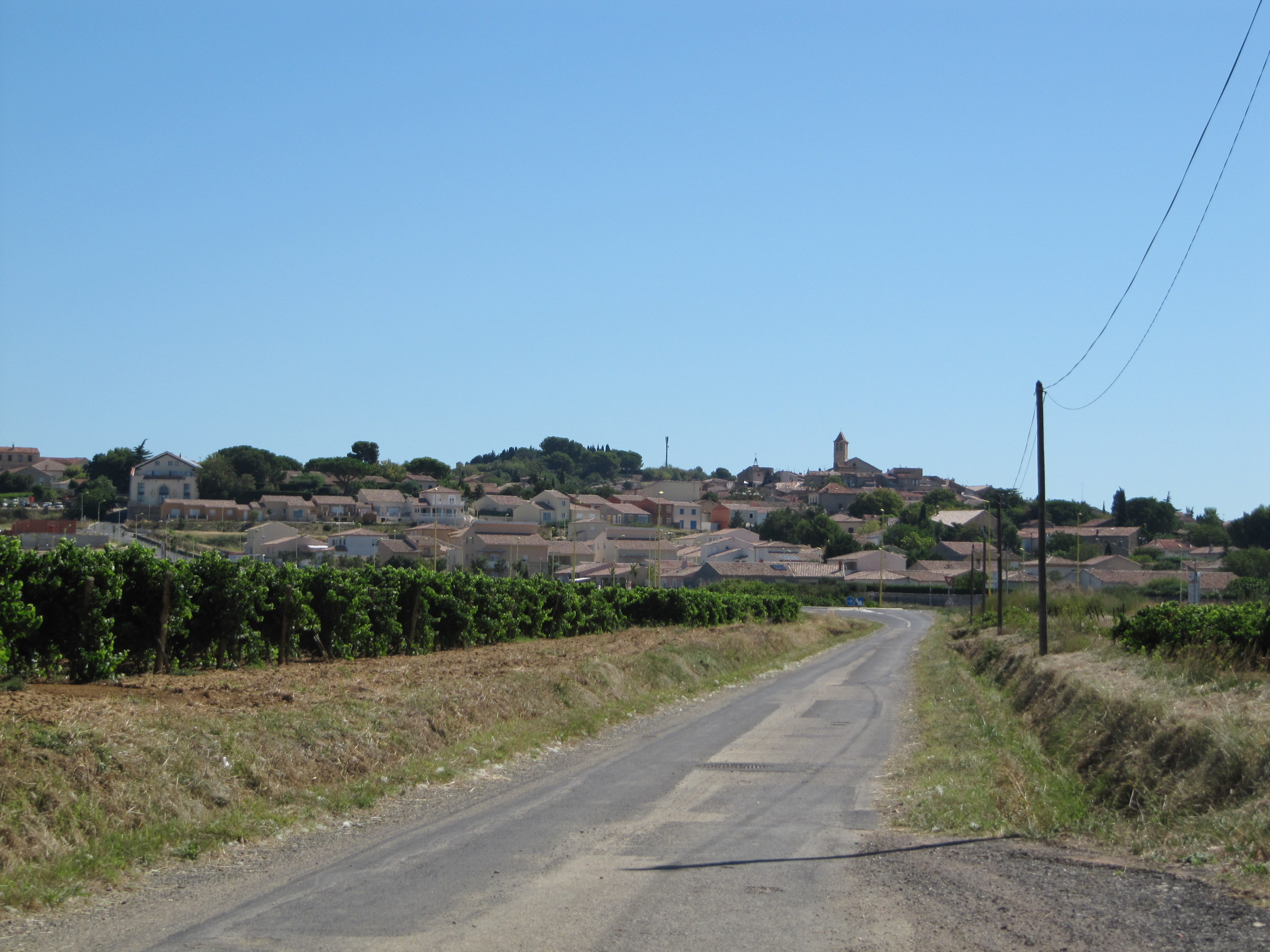 Thézan-lès-Béziers